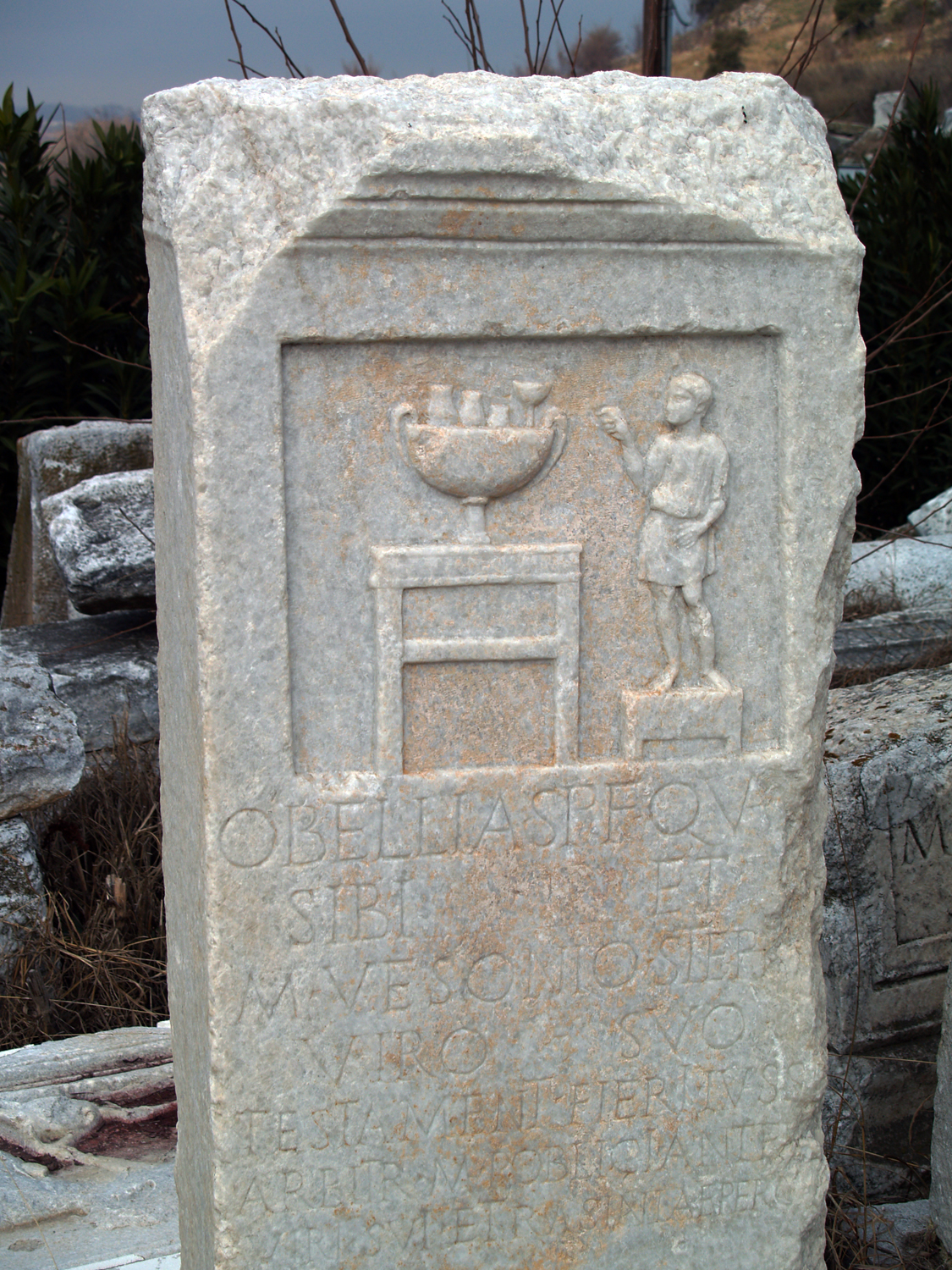 Stele from Phillipi Archeology Museum, Greеce